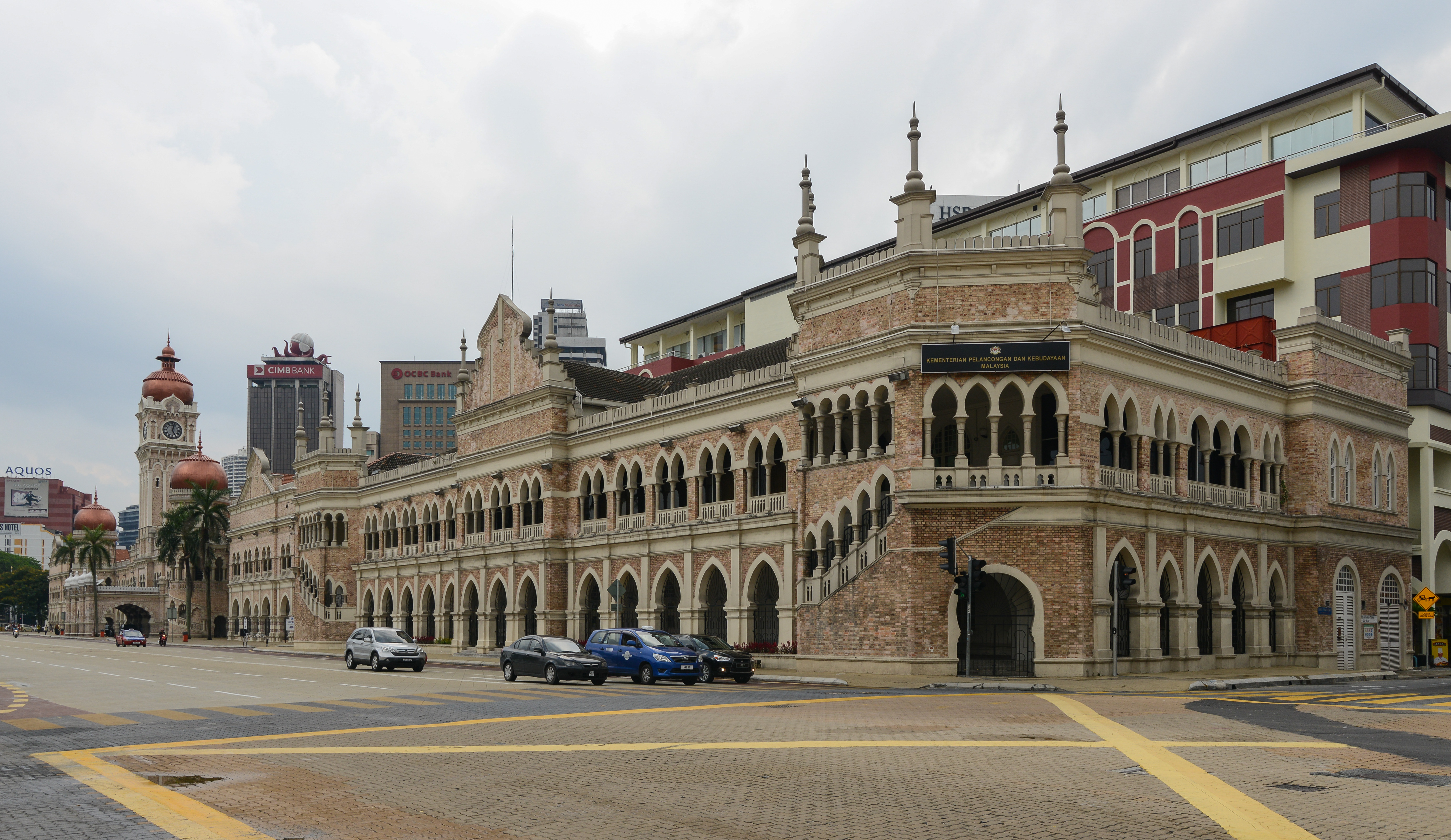 The Sultan Abdul Samad Building is located in front of the Dataran Merdeka (Independence Square) and the Royal Selangor Club, by Jalan Raja in Kuala Lumpur, Malaysia. The structure takes its name from Sultan Abdul Samad, the reigning sultan of Selangor at the time when construction began. The building houses the offices of the Ministry of Information, Communications and Culture of Malaysia. It formerly housed the superior courts of the country: the Federal Court of Malaysia, the Court of Appeals and the High Court of Malaya. The Federal Court and the Court of Appeals had shifted to the Palace of Justice in Putrajaya during the early 2000s, while the High Court of Malaya shifted to the Kuala Lumpur Courts Complex in 2007